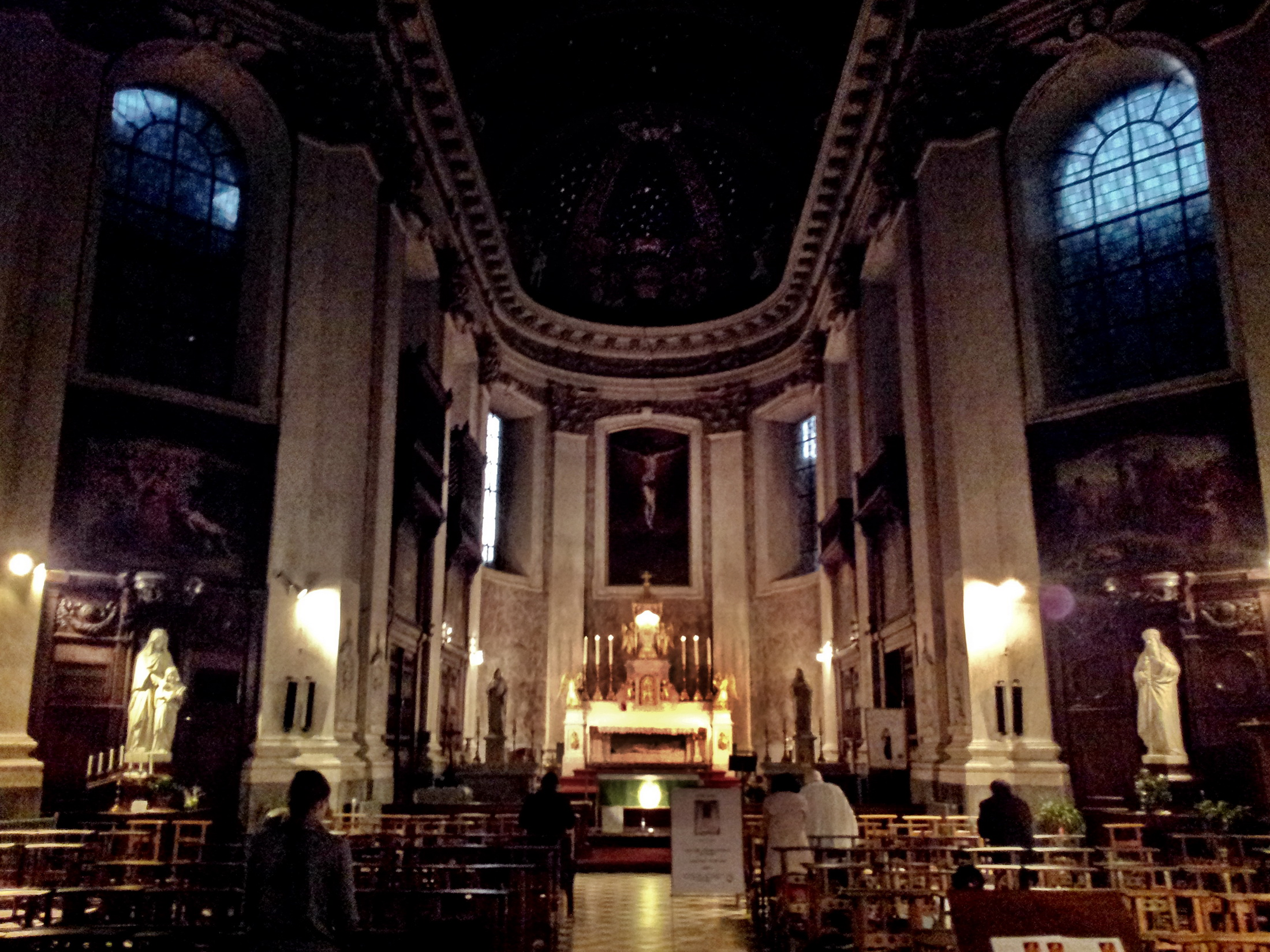 Interior of the Church of the Holy Sacrement in Liège, Belgium.